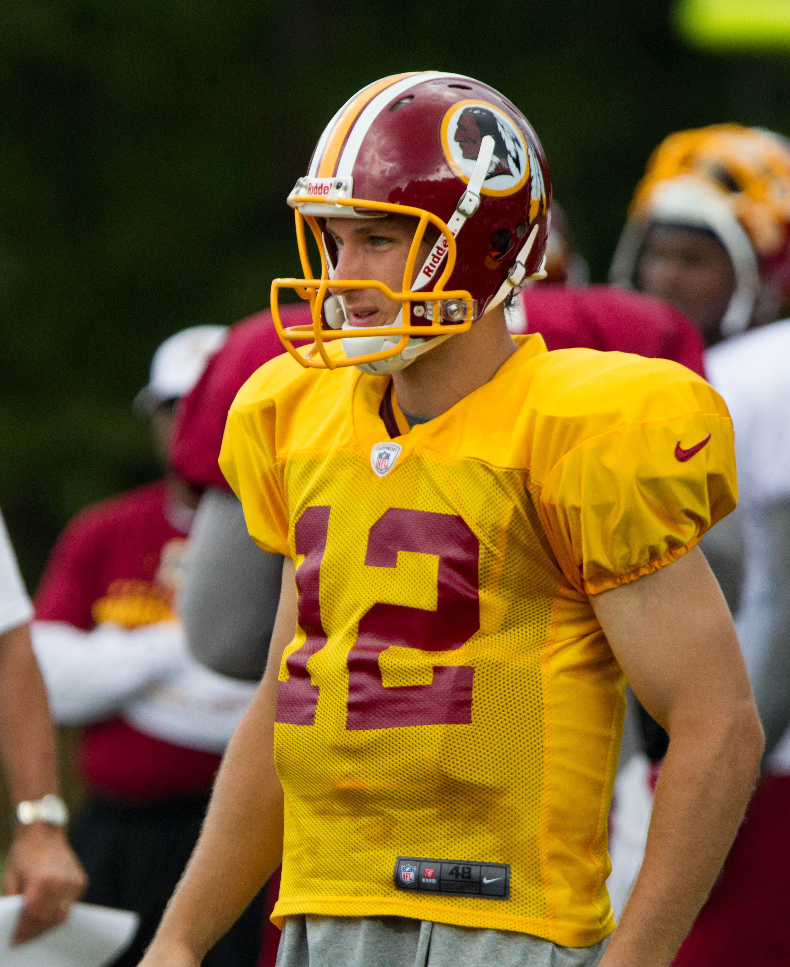 Kirk Cousins at Washington Redskins Training Camp July 31, 2012